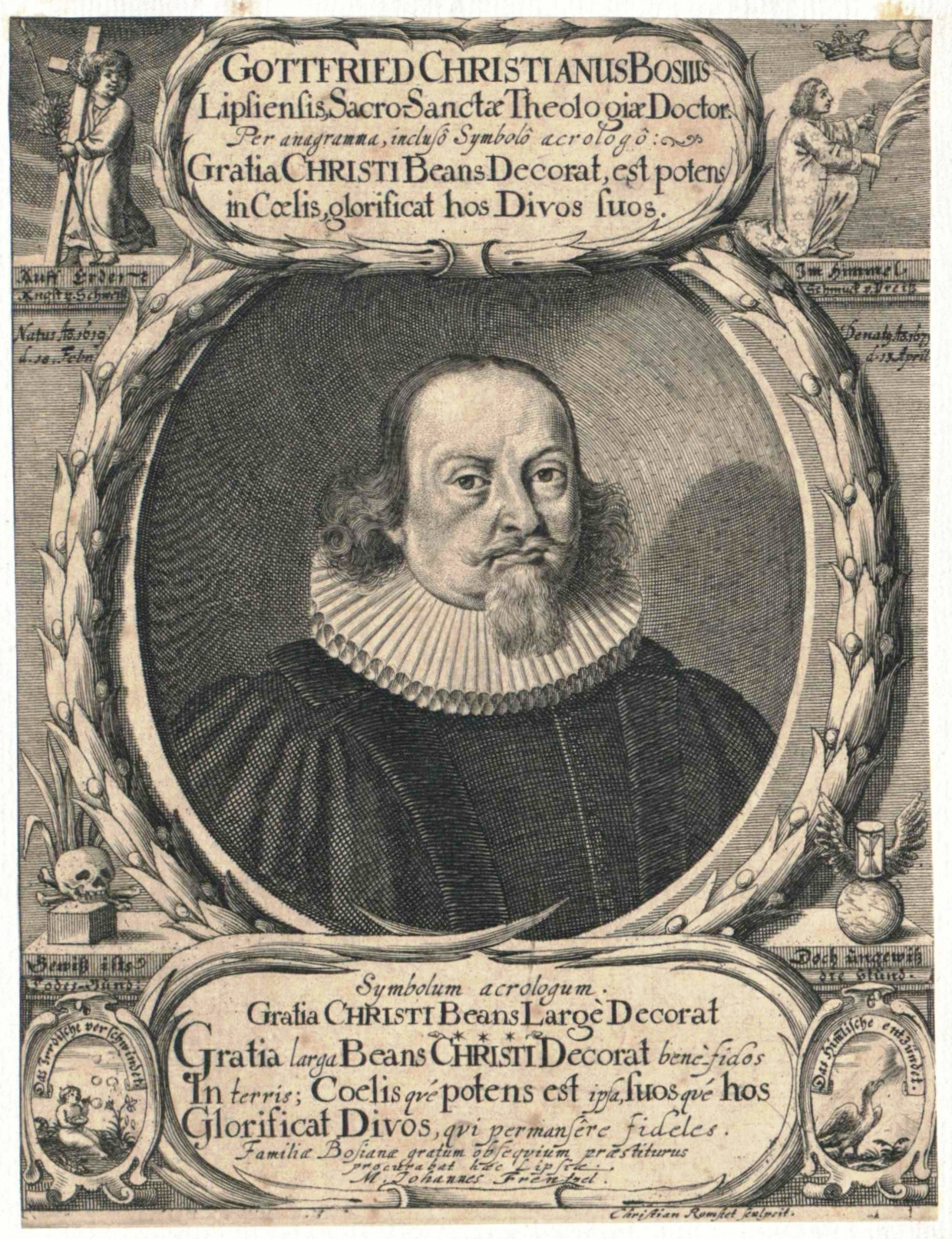 Gottfried Christian Bose (1619–1671)